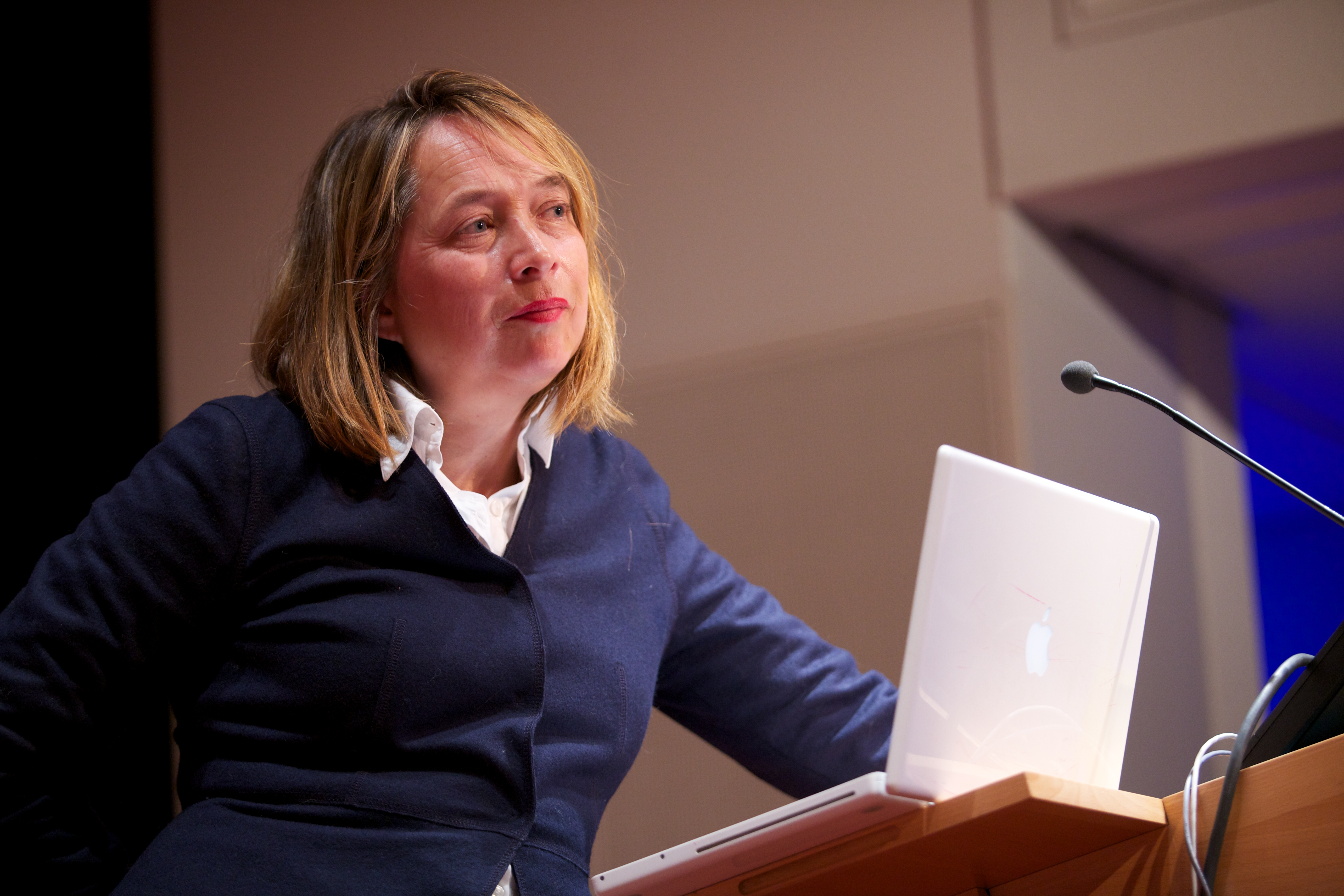 The unbound book conference on reading and publishing in the digital age. Photo: Sebastiaan ter Burg